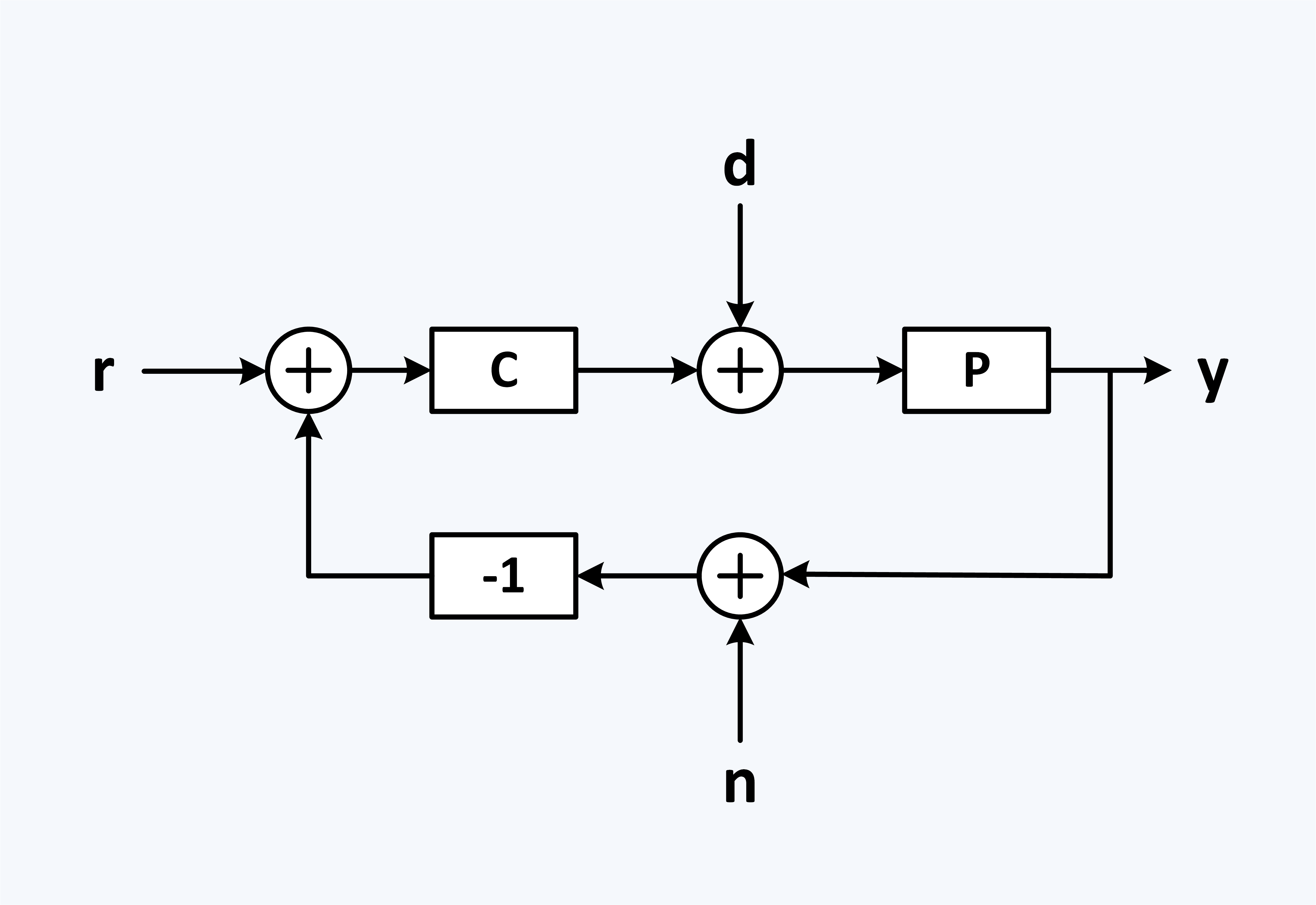 Feedback control of a dynamical process, P. The controller, C, is designed to cause the process output, y, to track the reference input, r. Measurement noise, n, and disturbances, d, cause deviations in the desired output.